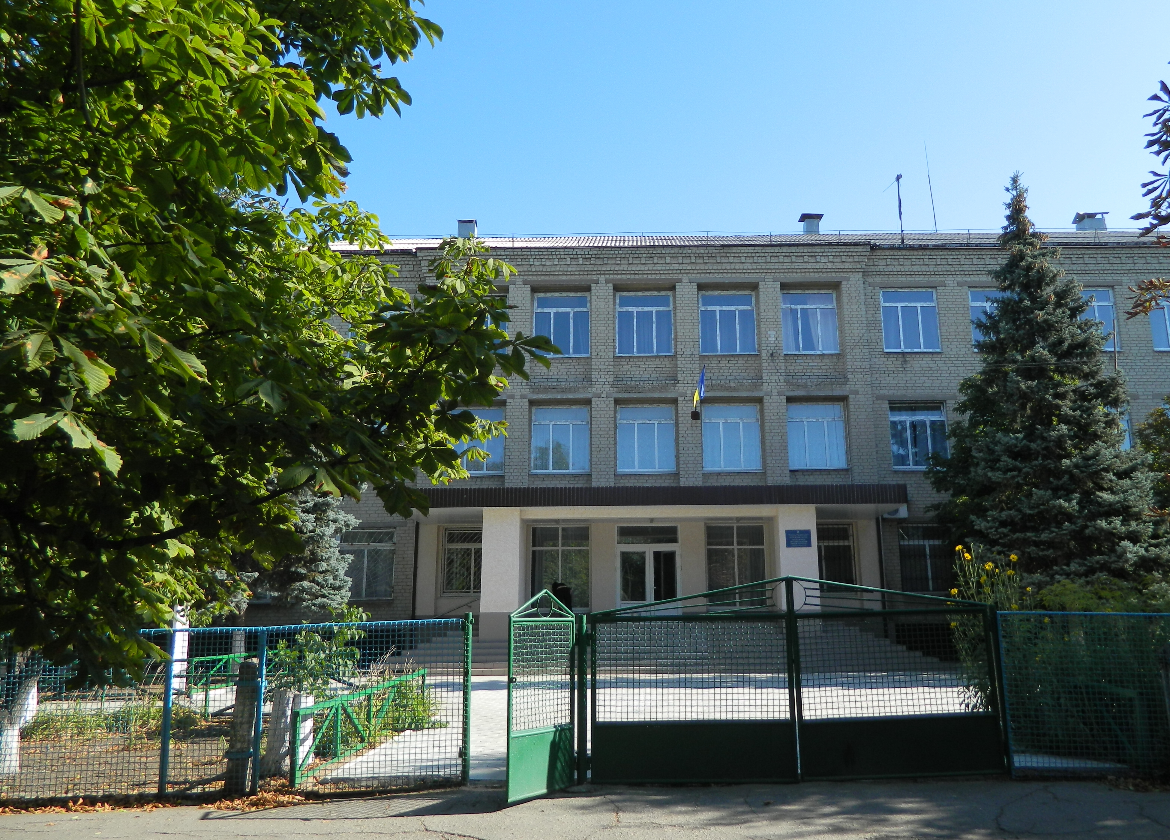 Chernihivka, School, 2012